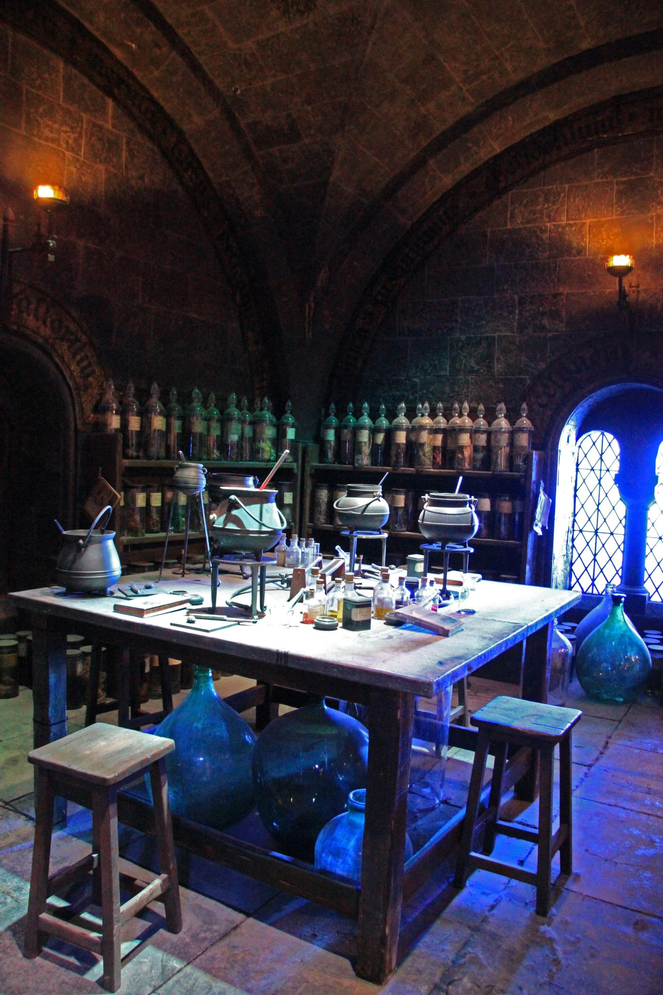 Warner Bros. Studio Tour London: The Making of Harry Potter.